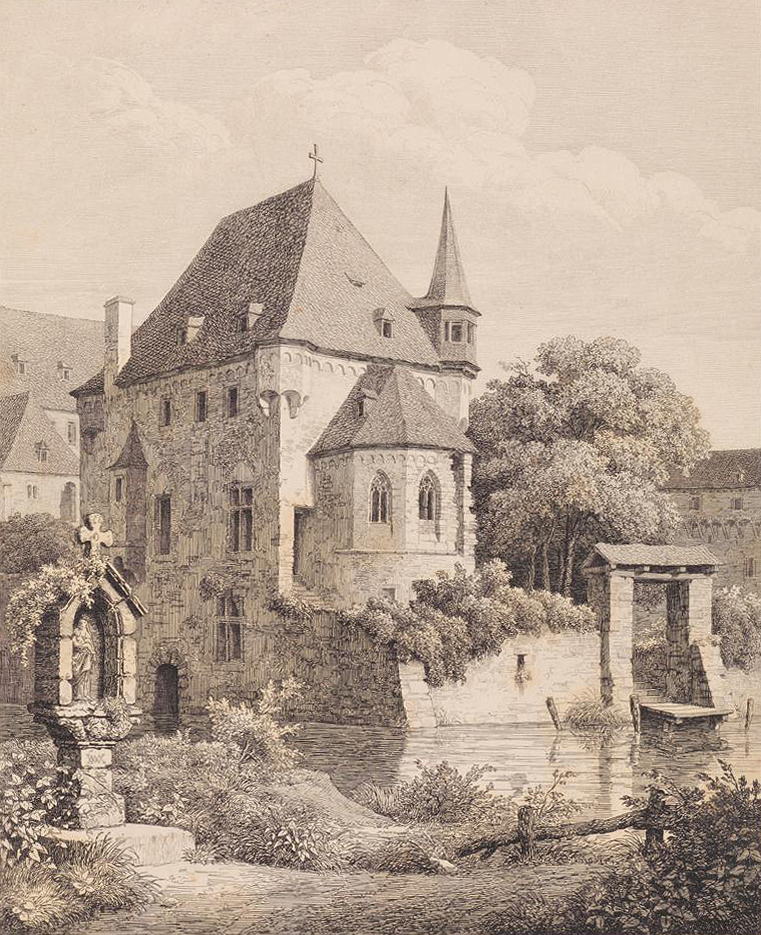 A ruin. Etching by Rudolf Wiegmann 1841.